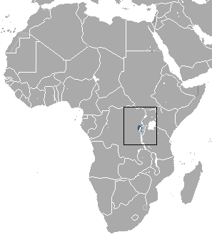 Greater Large-headed Shrew (Paracrocidura maxima) range